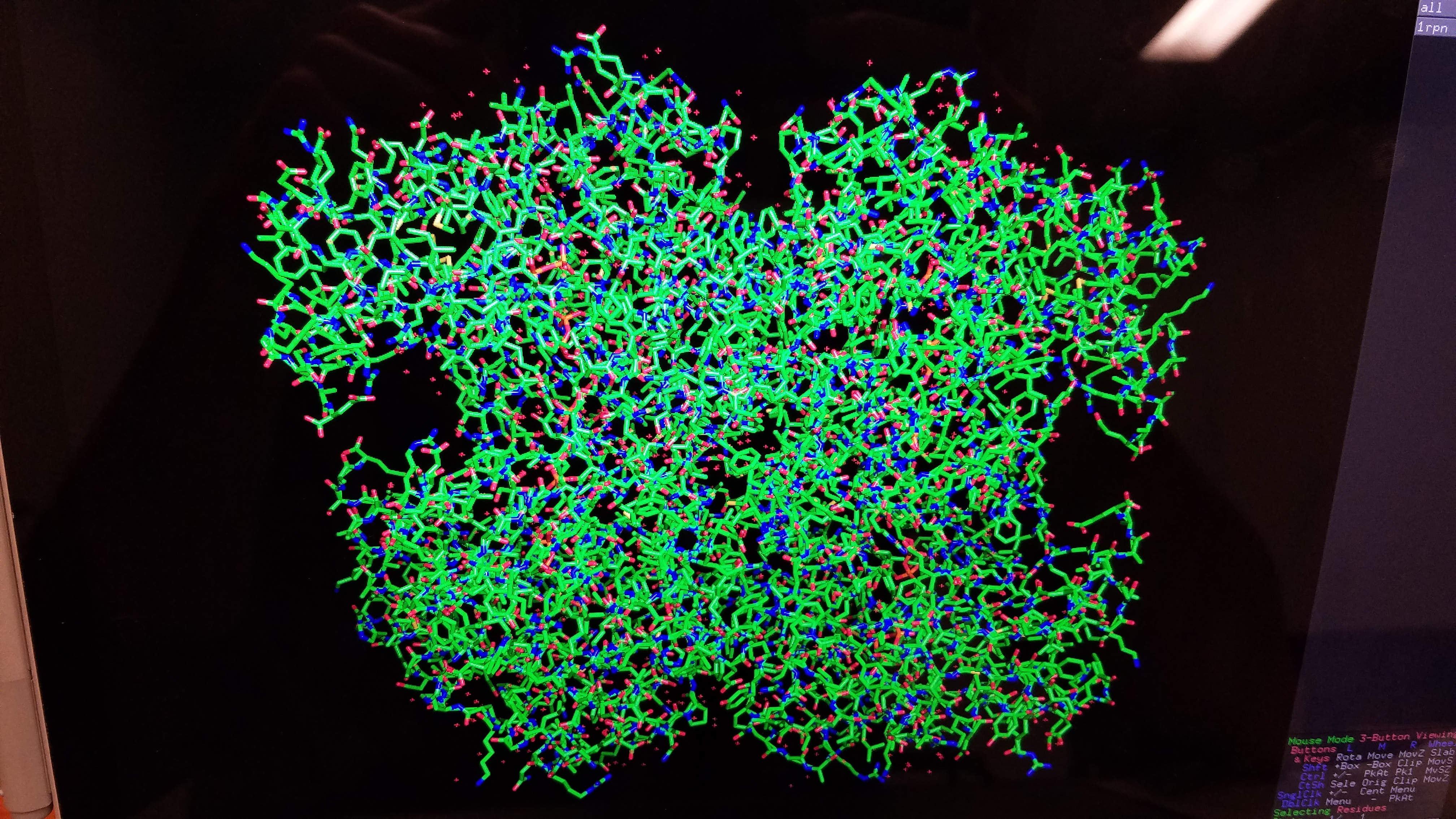 This is a pymol view that shows the entire structure of the GDP-Mannose 4, 6-Dehydratase enzyme.